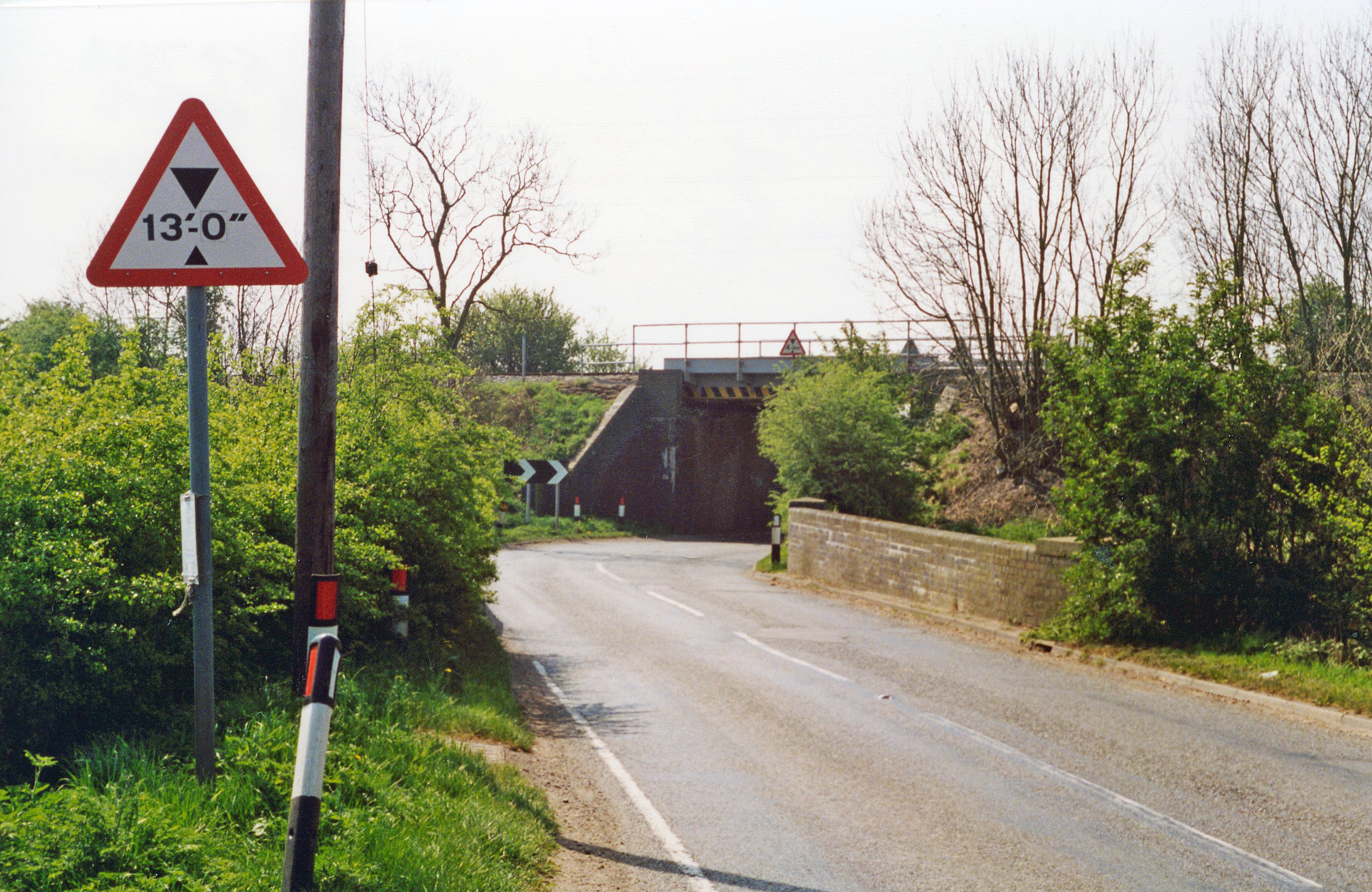 Site of former East Langton station. View southward on B6047, to the bridge carrying the ex-Midland London St Pancras - Kettering (to left) - (to right) Leicester and the North. The station, which had been on the left, was closed from 1/1/68.